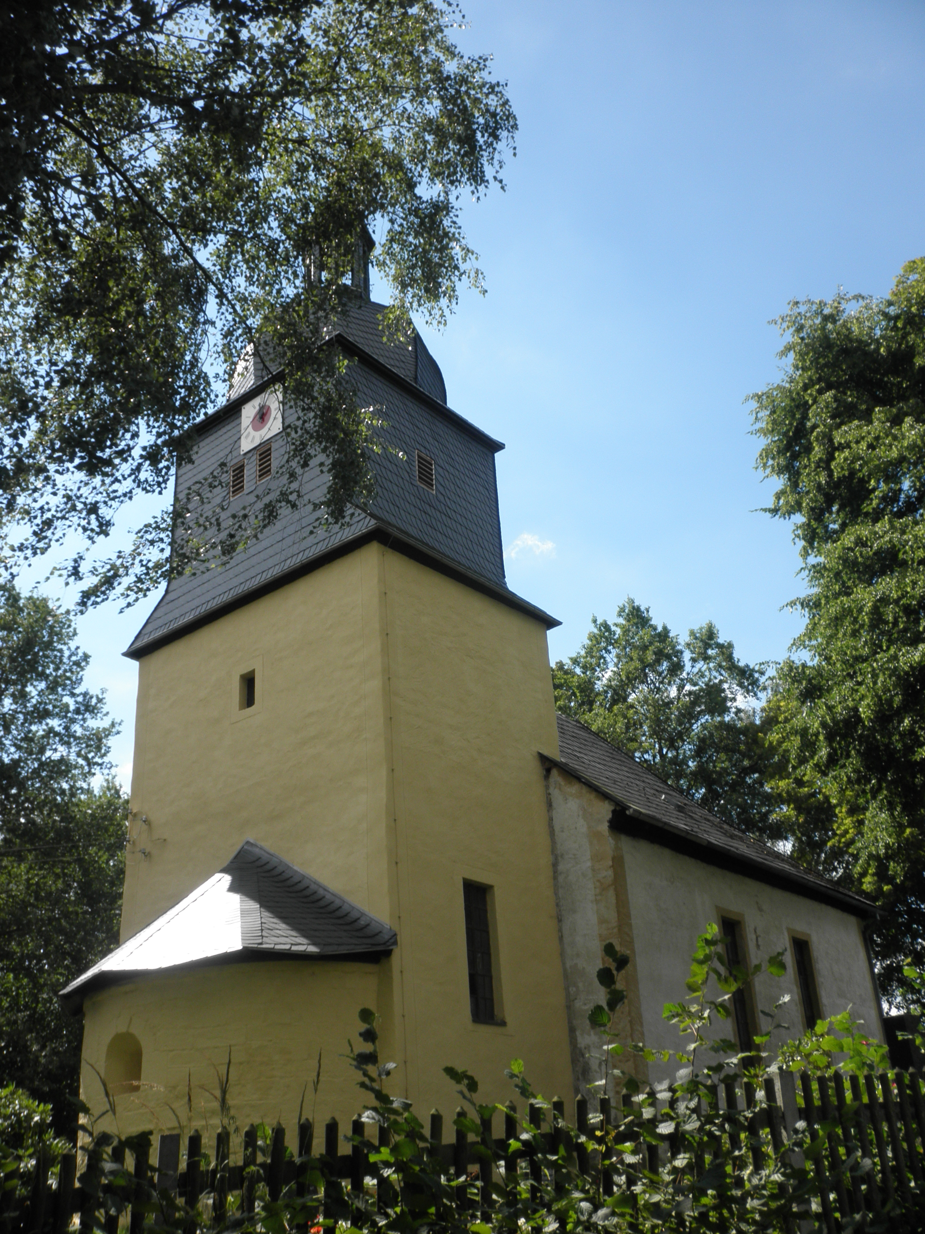 Church in Schönborn (Triptis) in Thuringia